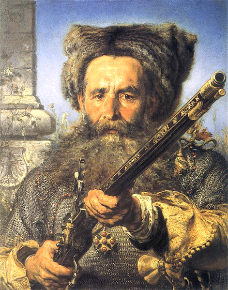 Picture of Ostafiy Dashkevych made by Jan Matejko